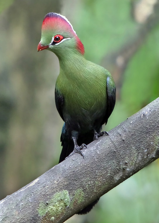 Fisher's Turaco